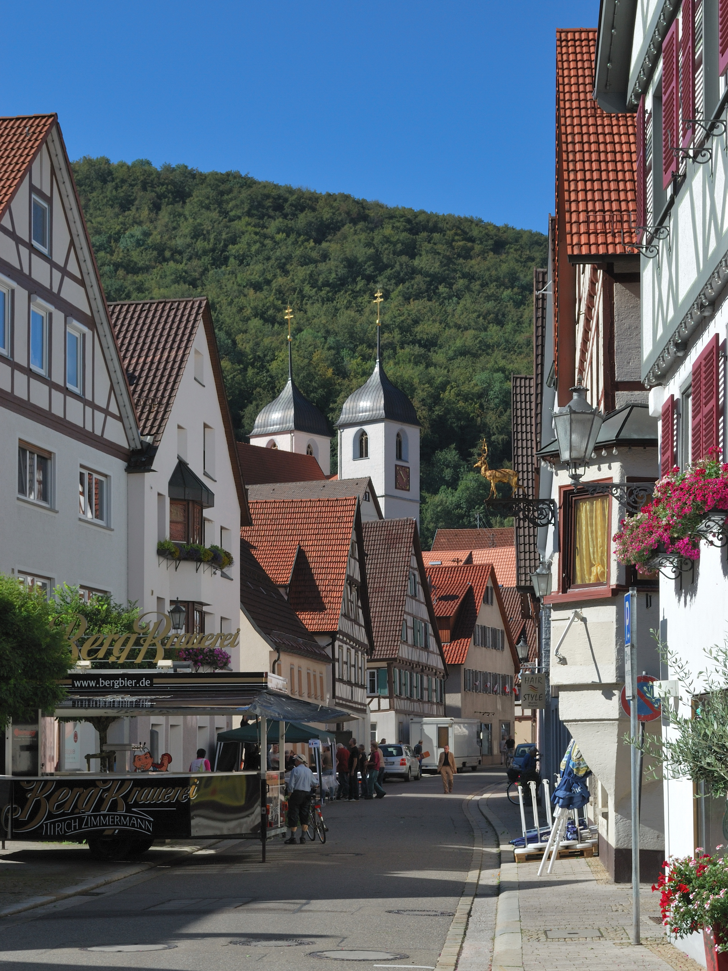 Wiesensteig (Baden-Württemberg, Germany), View of the church St. Cyriakus.